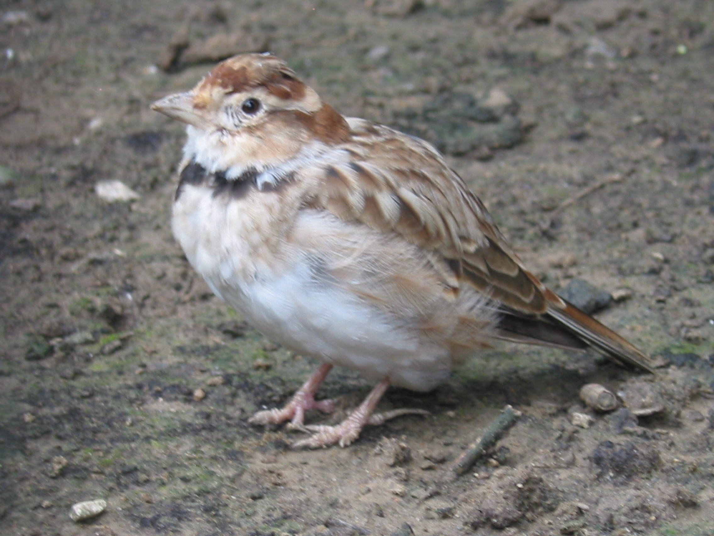 Melanocorypha mongolica in Beijing Zoo.